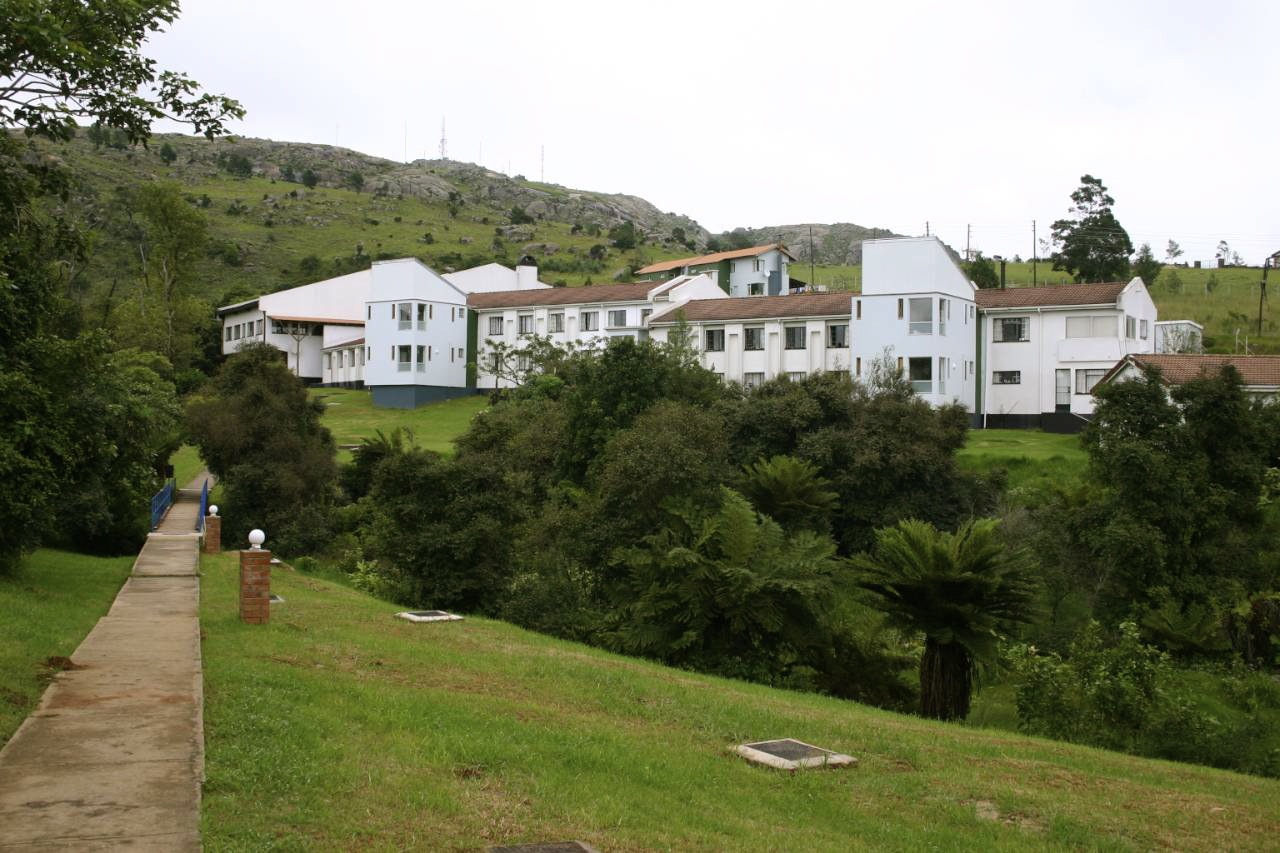 Dormitory for IB-level students at Waterford Kamhlaba, located five minutes walk from the classroom area.